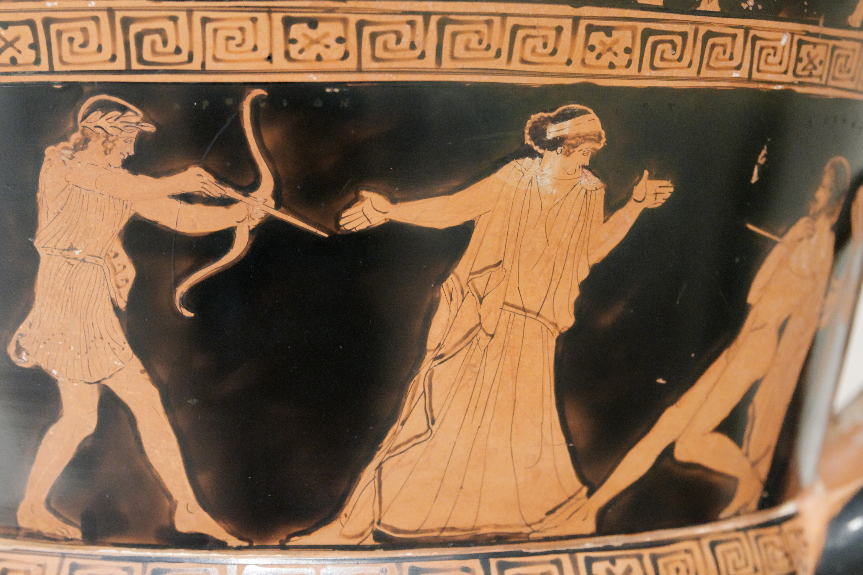 Apollo and Tityos. Lower tier, side A of an Attic red-figure calyx-krater.